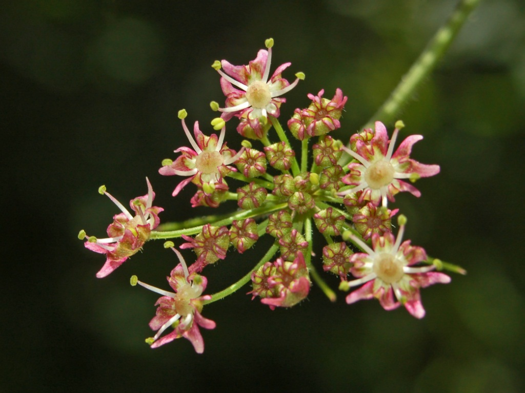 Heracleum sphondylium - Val Noci, Genova, Italy